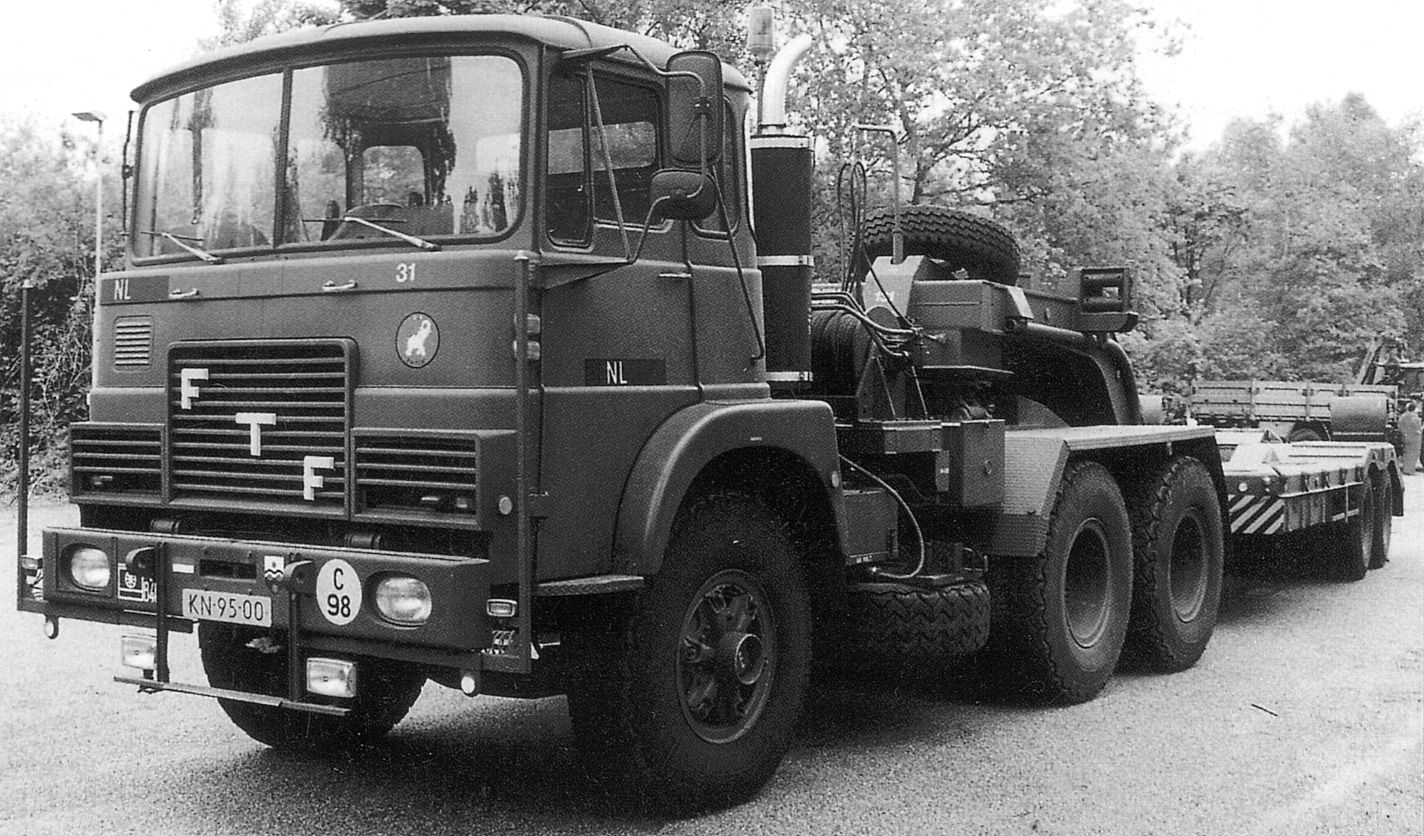 FTF Heavy Tanktransporter. Built by the Floor Truck Factory The Netherlands. In use by the Dutch Army in the seventies of the previous century.